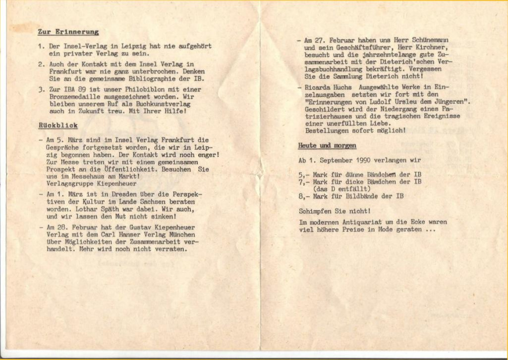 Sonderausgabe des Insel-Schiffs des Insel Verlags Leipzig, Frühjahr 1990